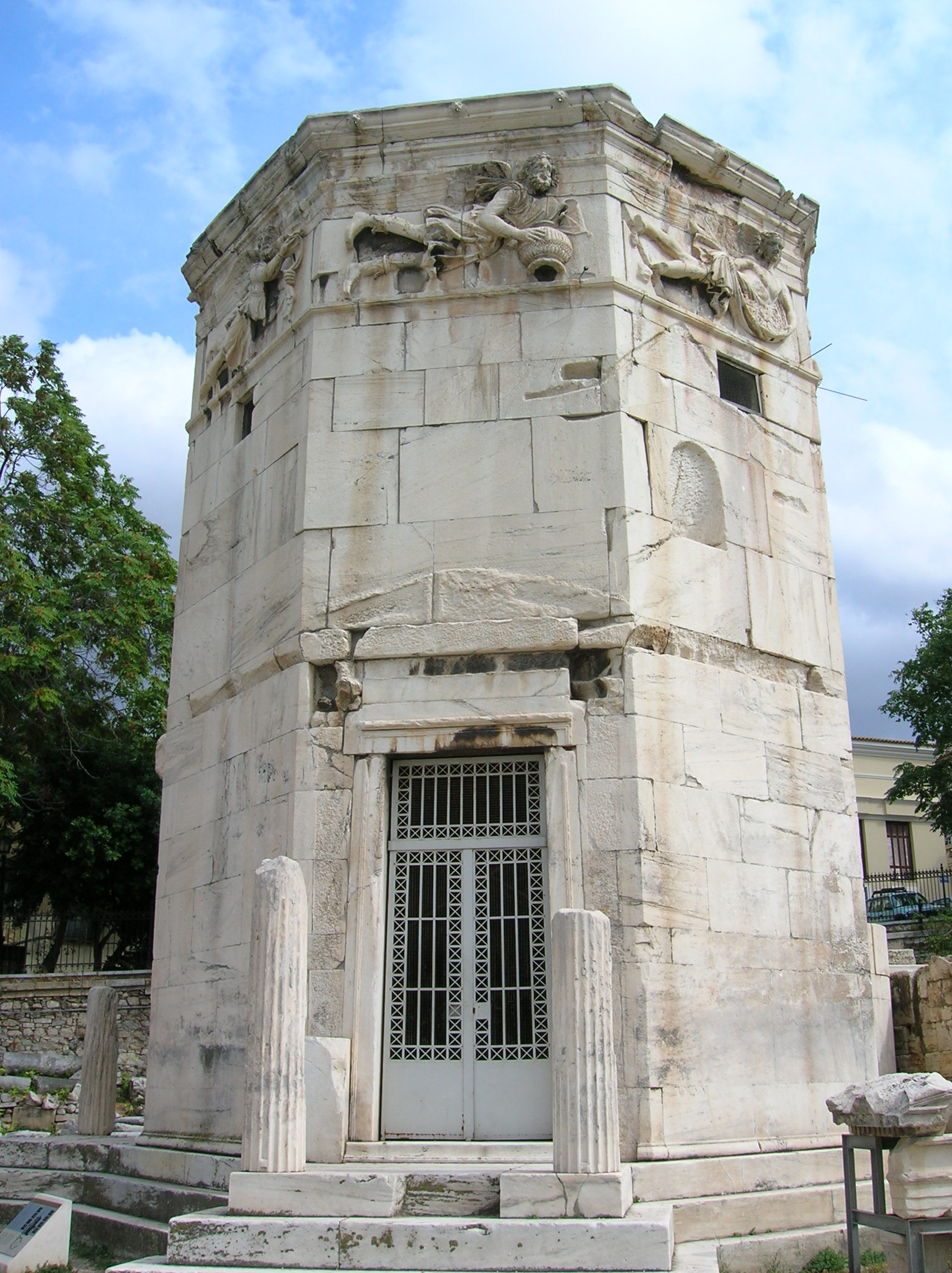 Aerides Tower, Tower of the Winds, in the Plaka quarter, Athens, Greece.